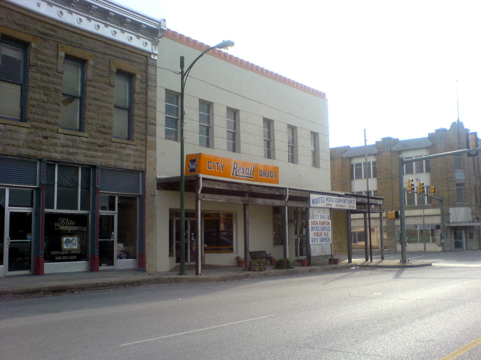 Rexall Drug in downtown Jacksboro.